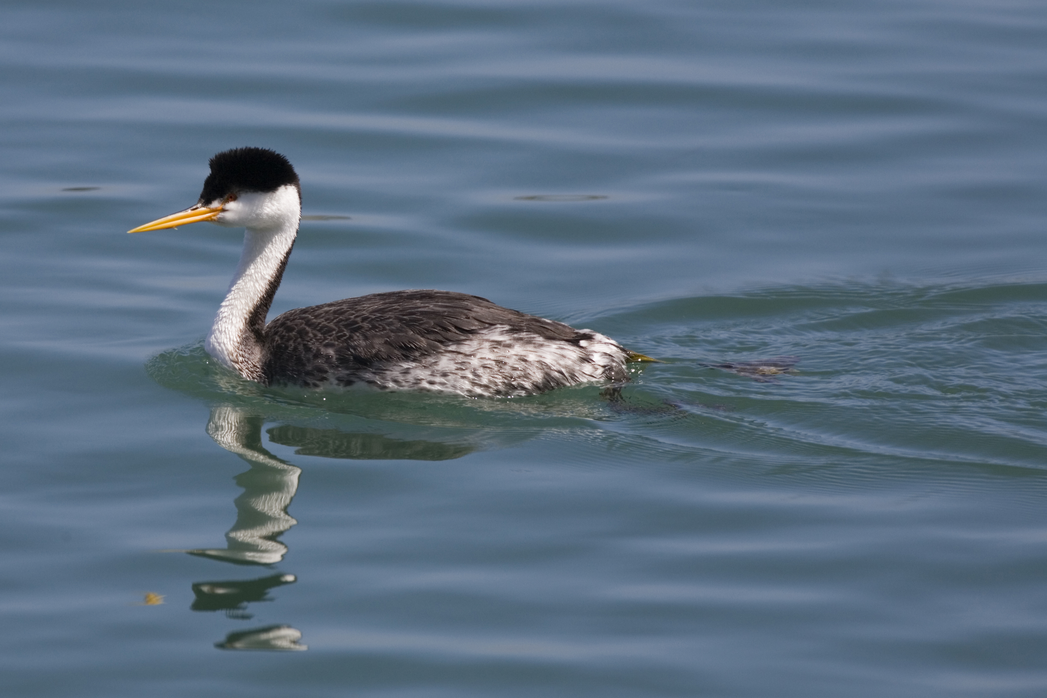 Clark's Grebe